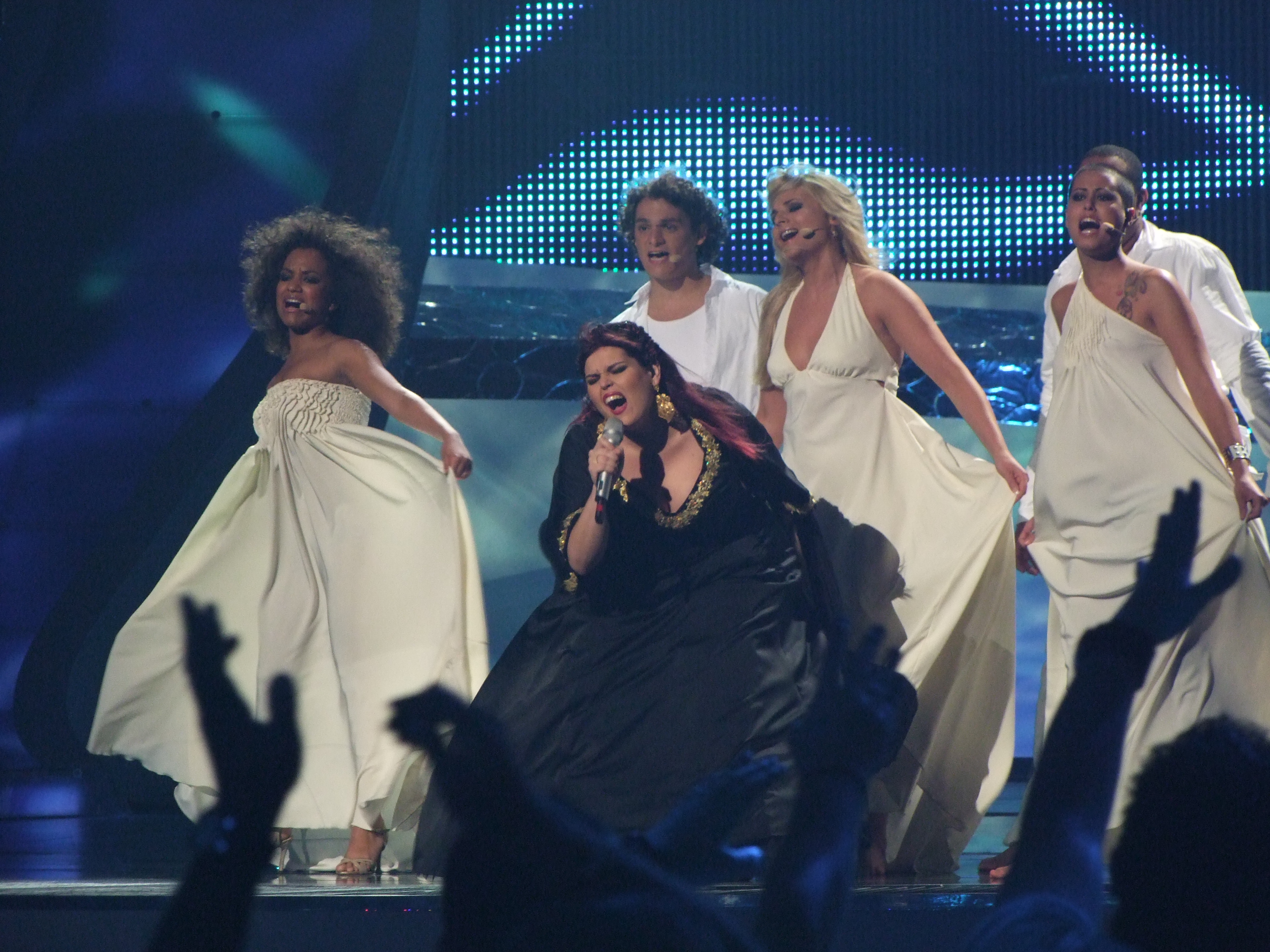 Vânia Fernandes in the final of the Eurovision Song Contest 2008 in Belgrade, Serbia - 24 May, 2008